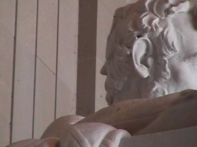 I took this picture at the Lincoln Memorial in Washington, DC on Sept. 17, 2002. It shows the mystery face carved on the back of the head of the sculpture of Abraham Lincoln. Hopefully a better photographer with a better camera will replace this photo soon, as the profile is very clear if you stand in the right place between the right columns. One of the park rangers showed us the best place to stand after he saw what we were looking for. A friend told me that the face was there. He had heard a rumor that it was Robert E. Lee looking west toward his home. Our helpful ranger told us he doubted that... thought it looked most like President Garfield?. "The truth is out there," so hopefully someone will enlighten the world via Wikipedia.